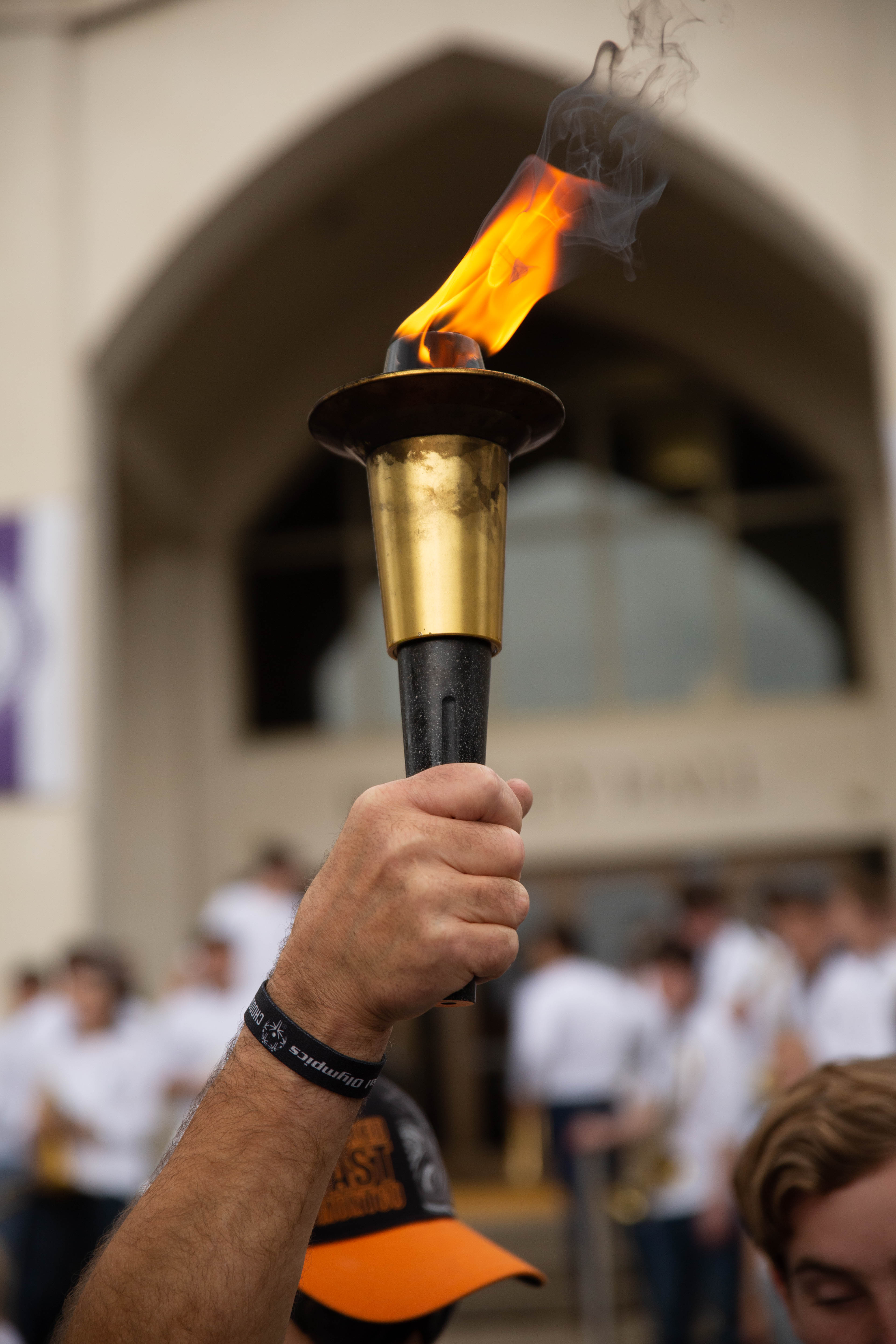 The Special Olympics Torch Arrives at the Quad of Villanova University in November of 2018. Photo by Maggie Mengel, AKSM photography.